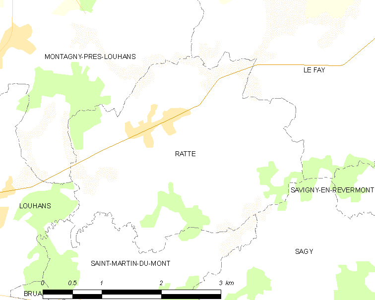 Map of French municipality